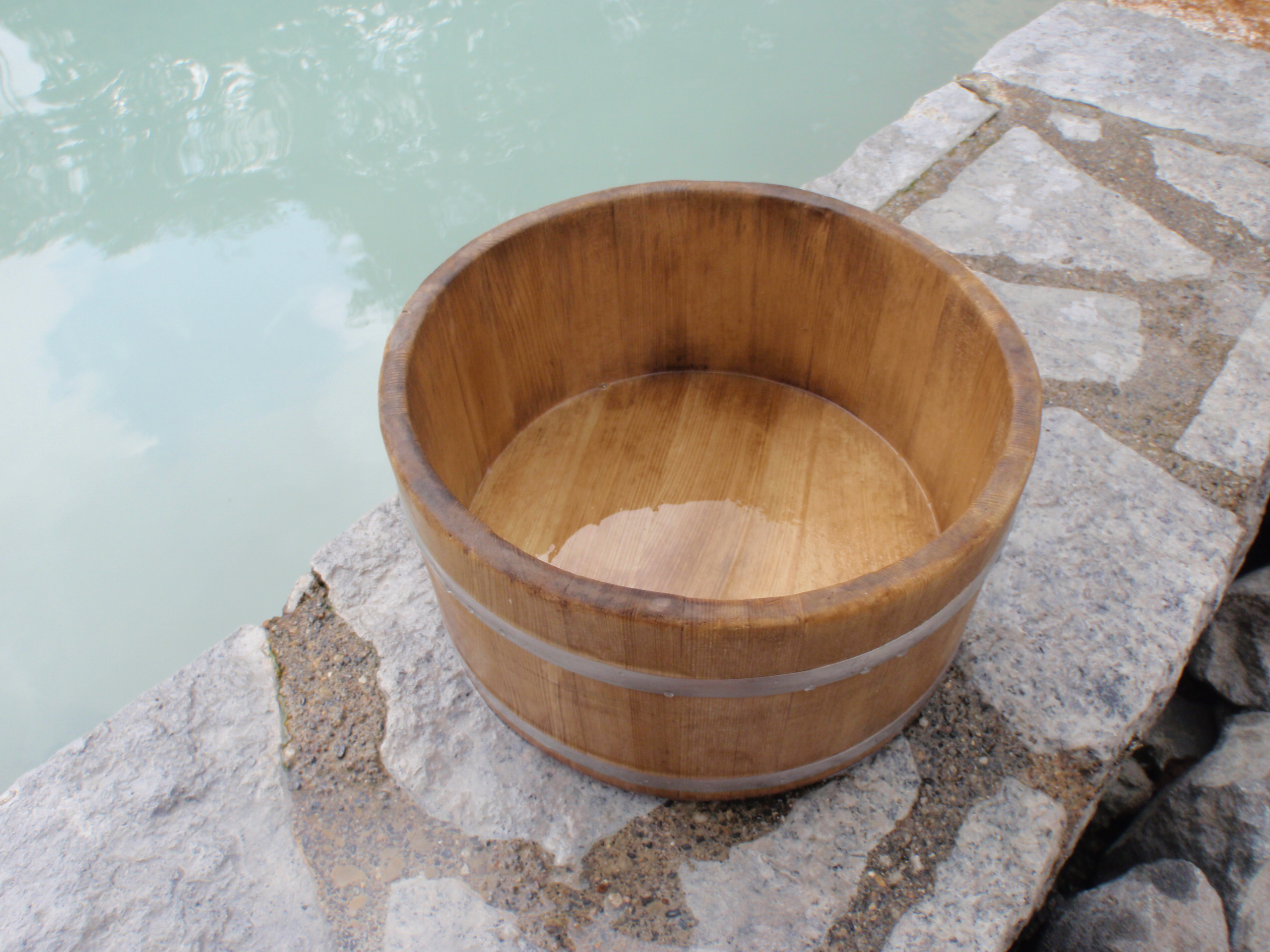 Wooden Hot-water pot